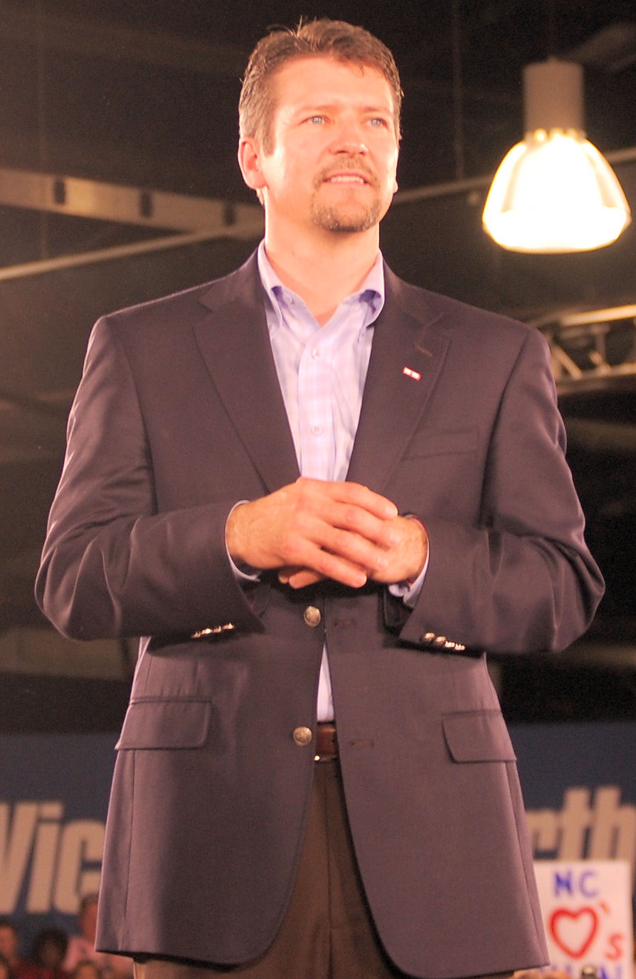 Todd Palin at a rally during the 2008 Presidential Campaign in Raleigh, NC.